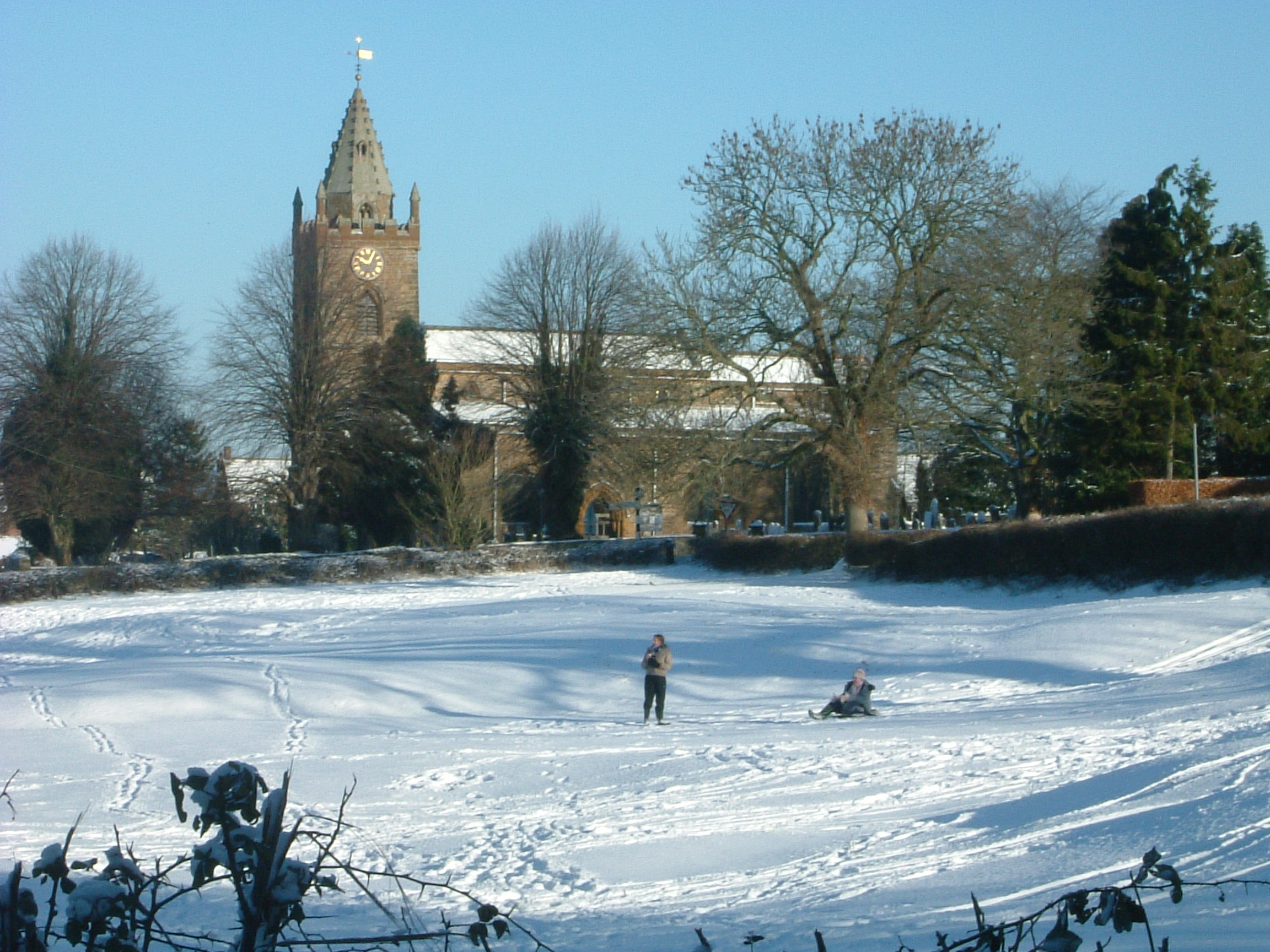 a photograph of a building with snow, entitled "Milton Snow 2004